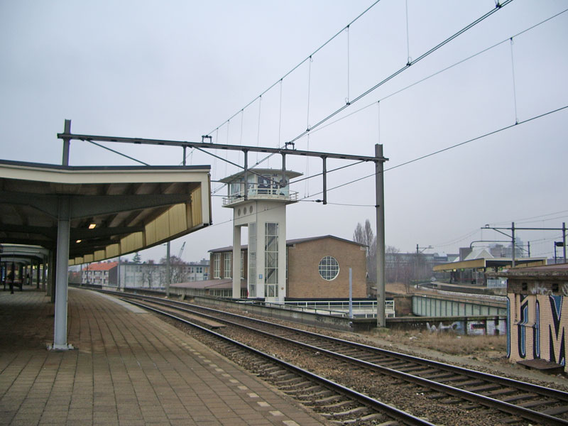 Railway station Amsterdam Muiderpoort, signal post